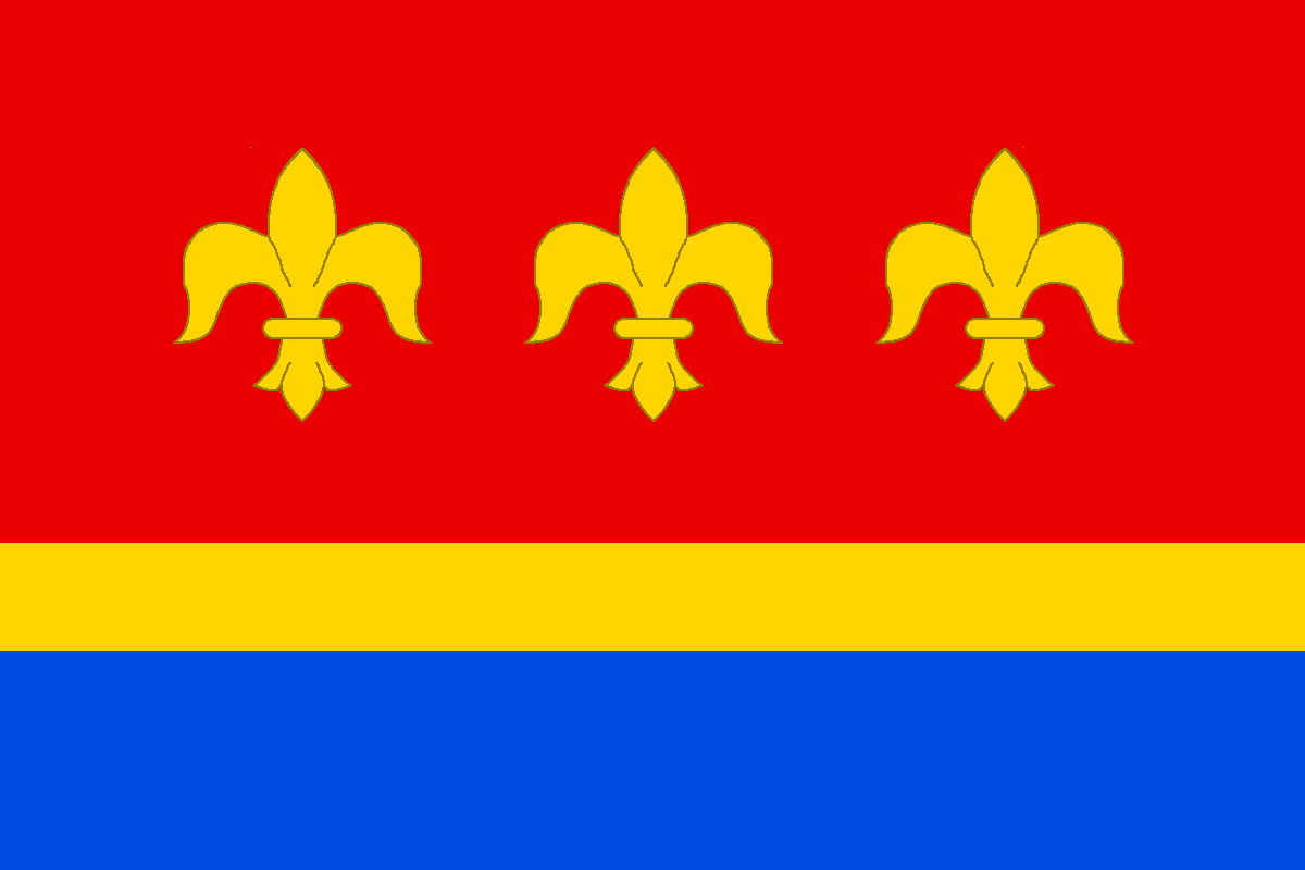 Flag of municipality Andělská Hora, Bruntál District, Czechia.